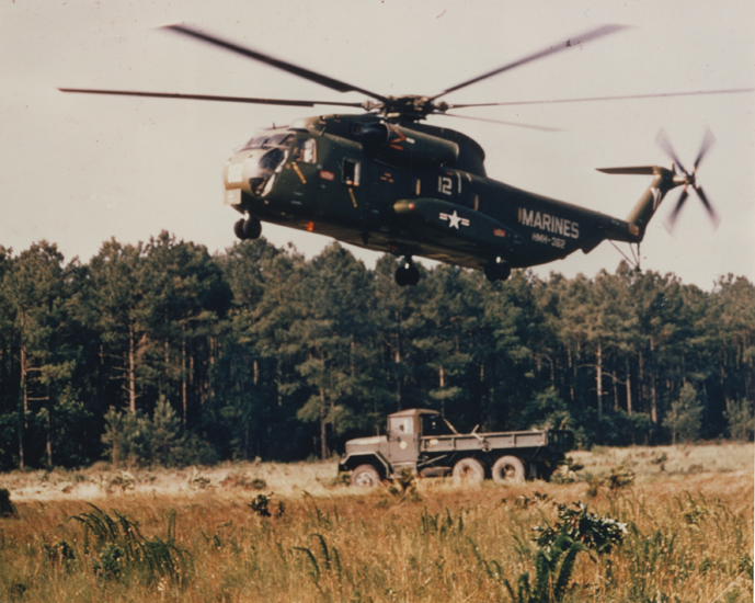 A U.S. Marine Corps Sikorsky CH-53D Sea Stallion helicopter of Marine heavy helicopter squadron HMH-362 Ugly Angels.